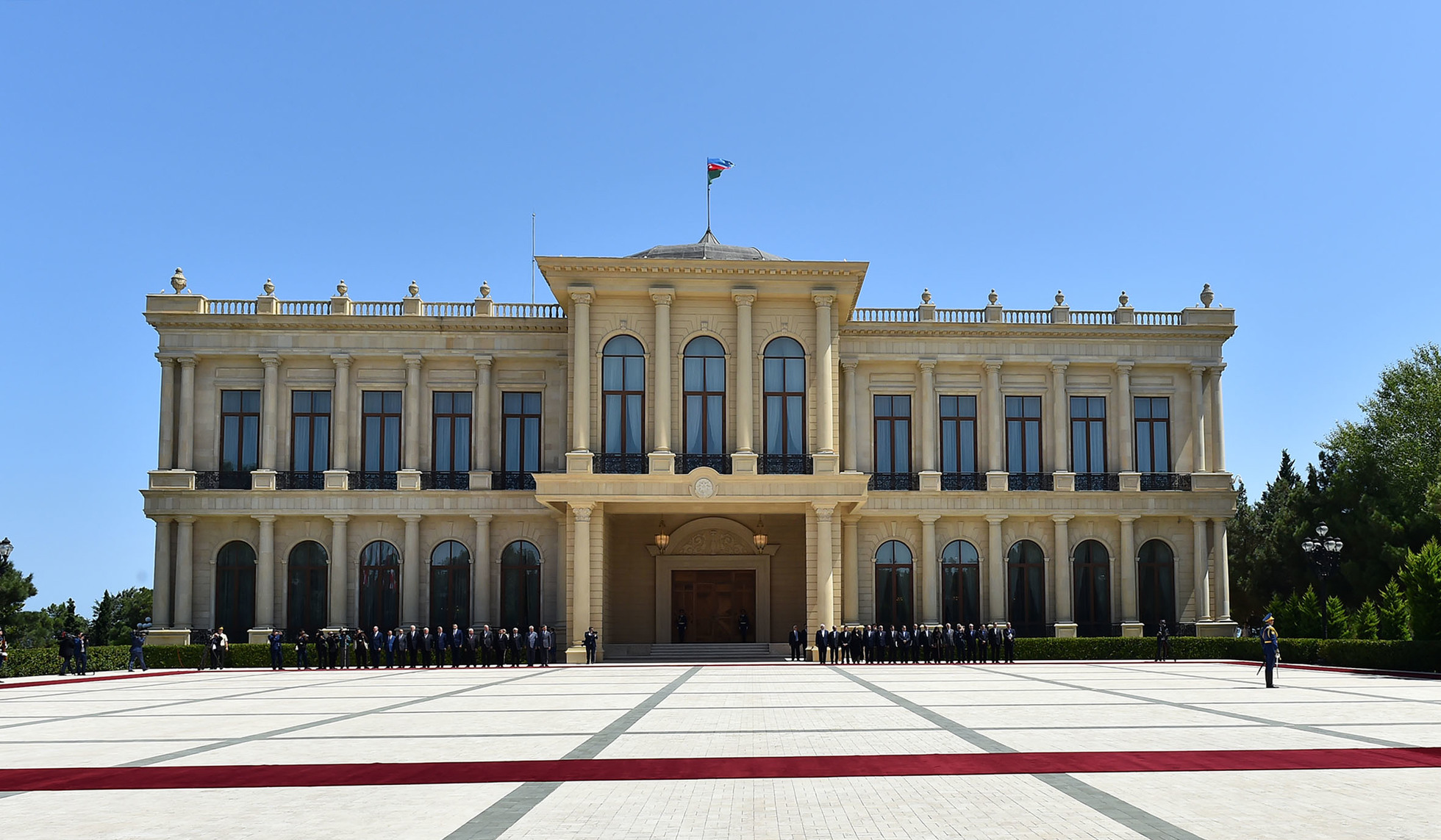 Zughulba Residence